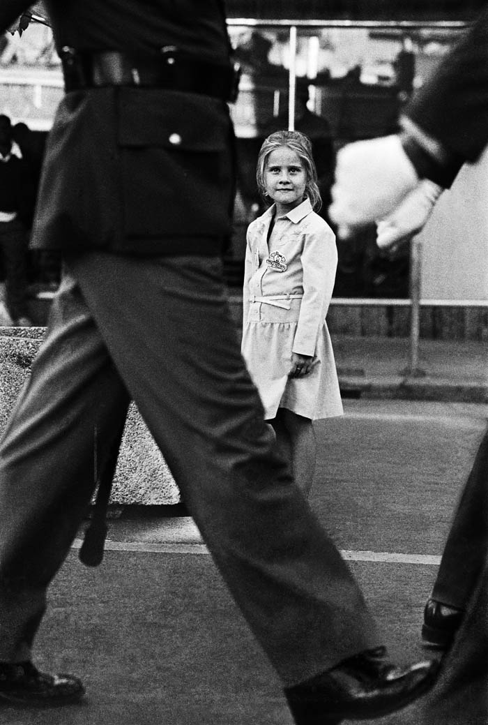 ‘Freedom of the City’ march, Pietermaritzburg, 1987. Part of the collection from Paul Weinberg that makes up the photographic book Travelling Light and was also part of the Then and Now exhibition at Duke University.